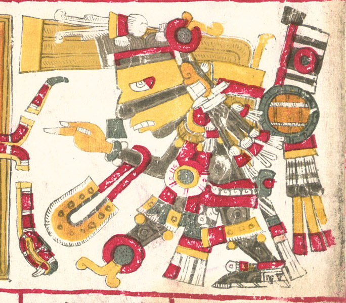 A drawing of Tezcatlipoca, one of the deities described in the Codex Borgia